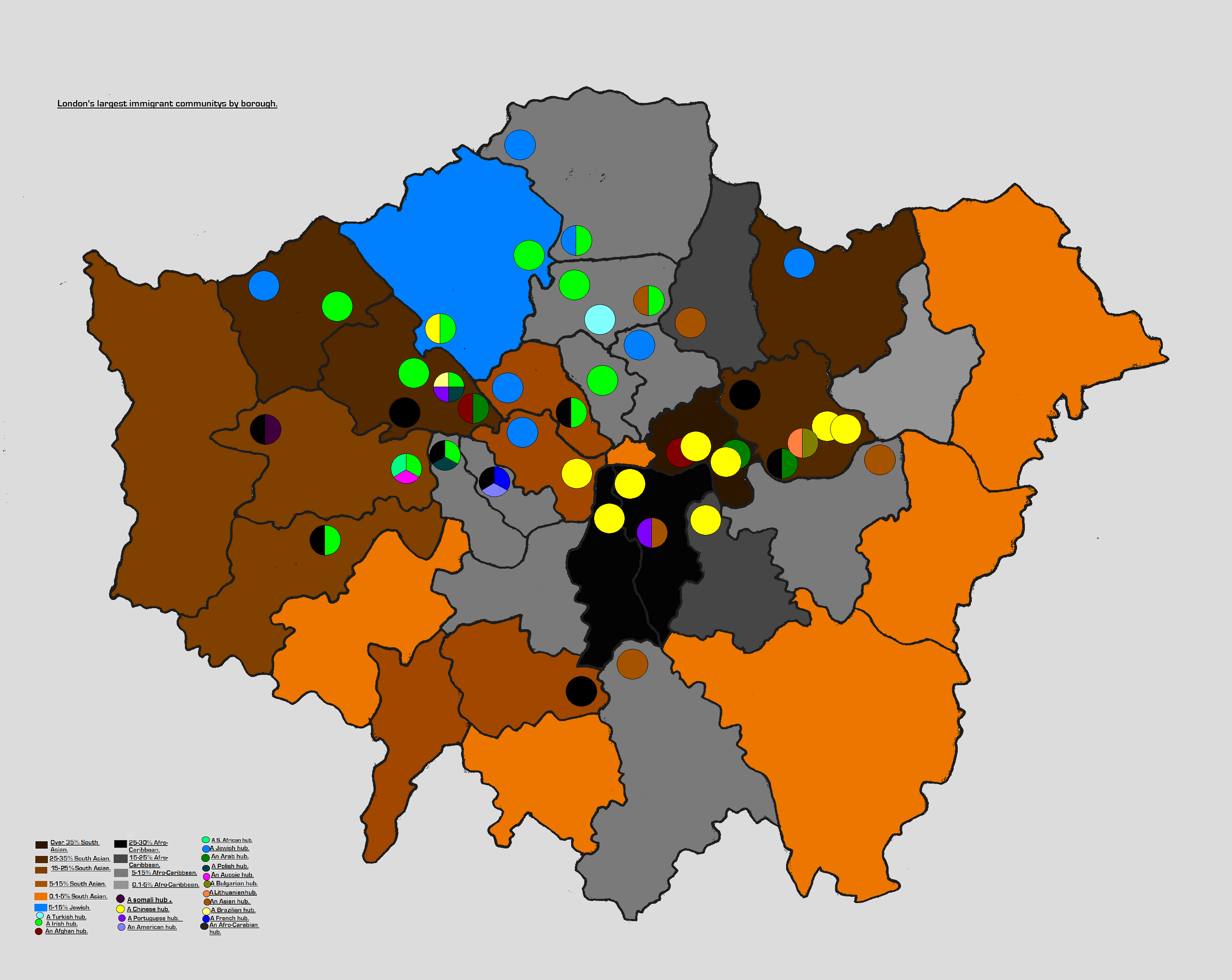 It is a visual over view of London's ethnic minorities from information in Wikipedia, local newspapers, the BBC and the Guardian newspaper in 2005. I created the graphic myself.